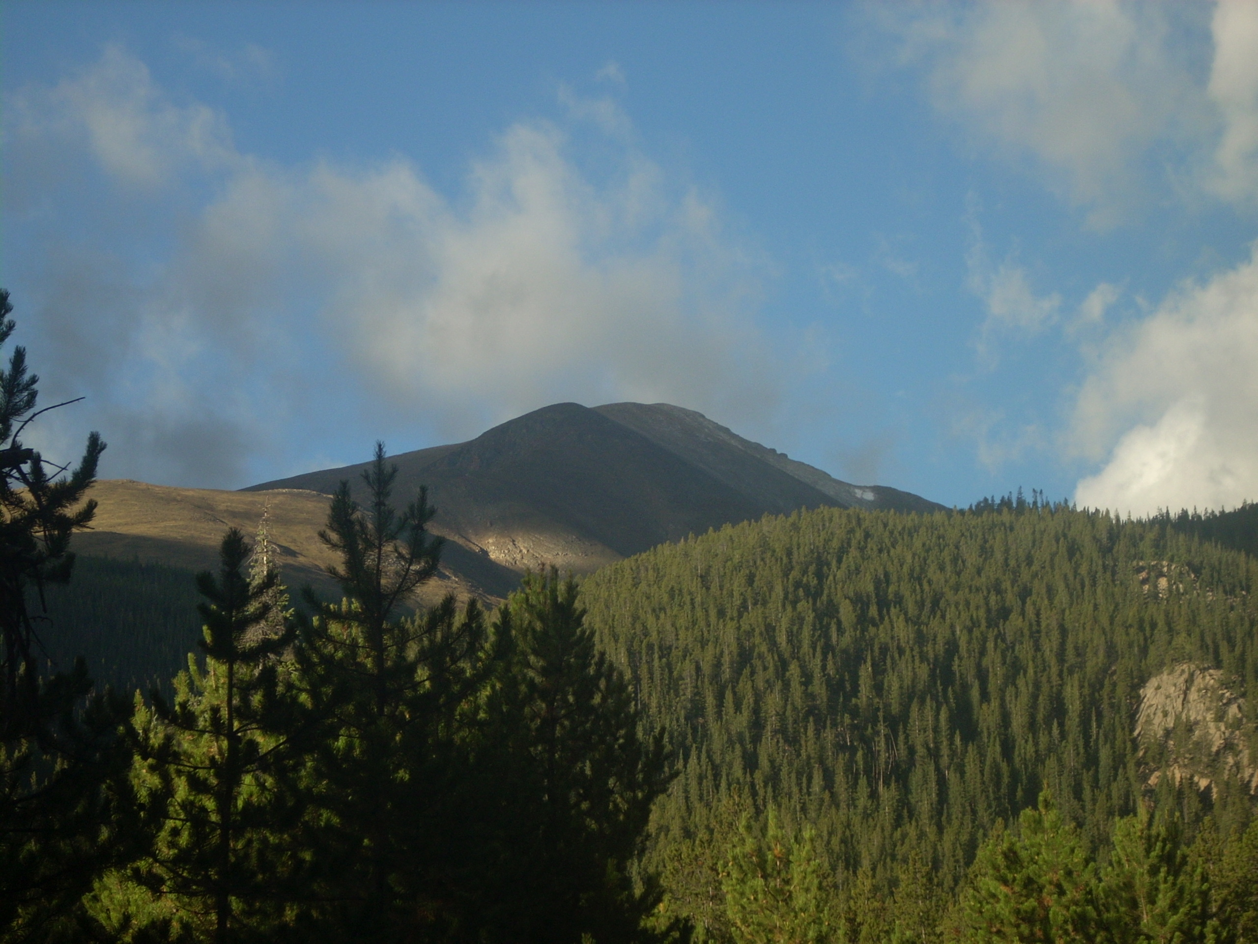 Mount Elbert North-east ridge August 2010